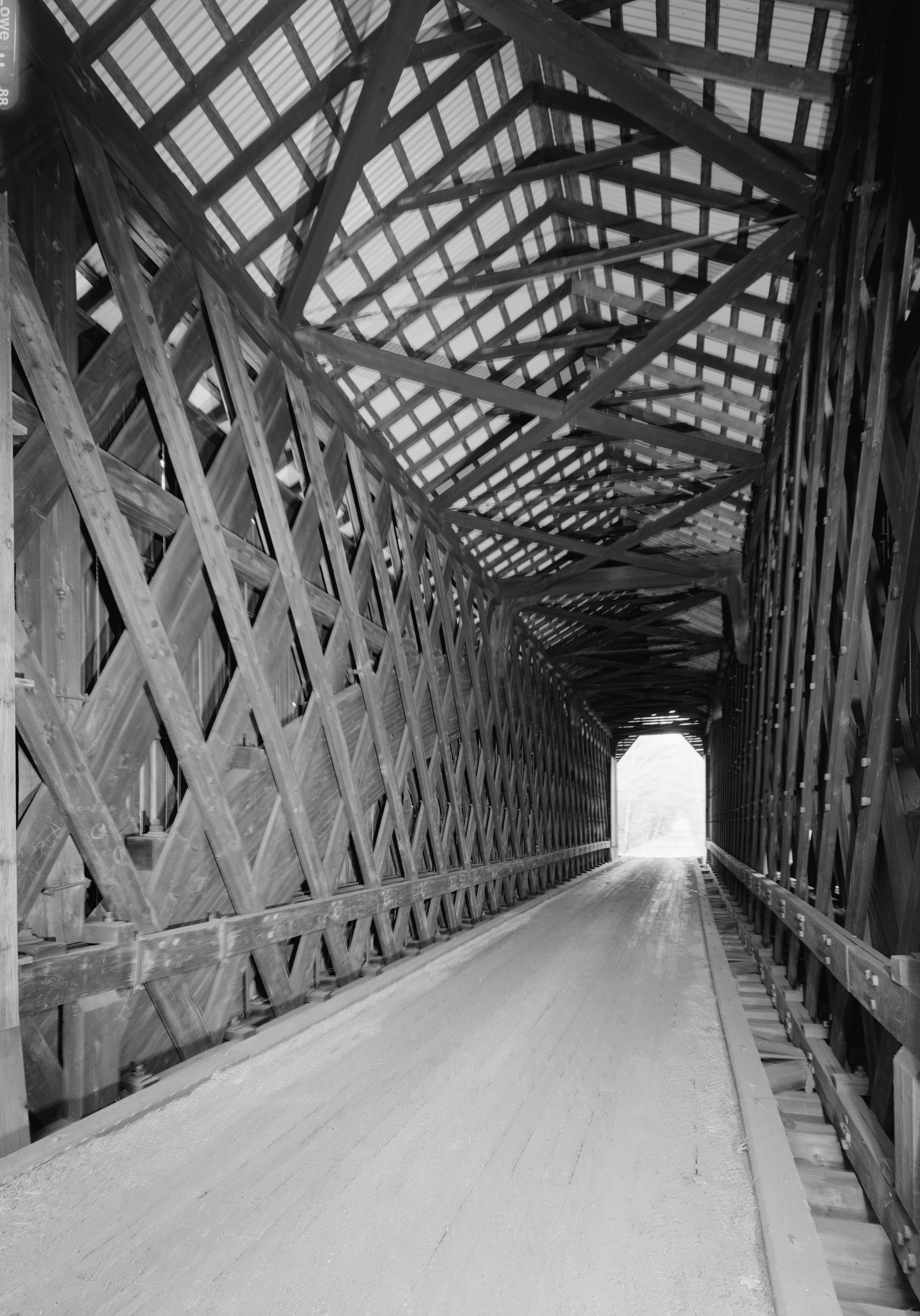 Wright's Bridge, Spanning Sugar River, former Boston & Maine Railro, Claremont vicinity (Sullivan County, New Hampshire)